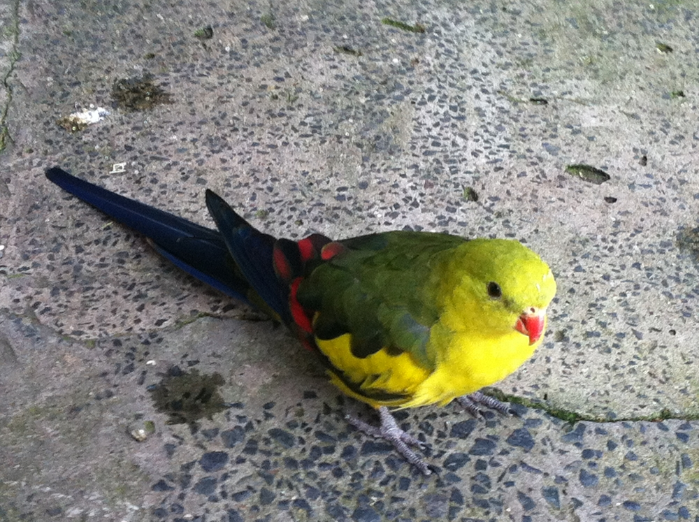 Male Regent Parrot - Image taken at Symbio Wildlife Park